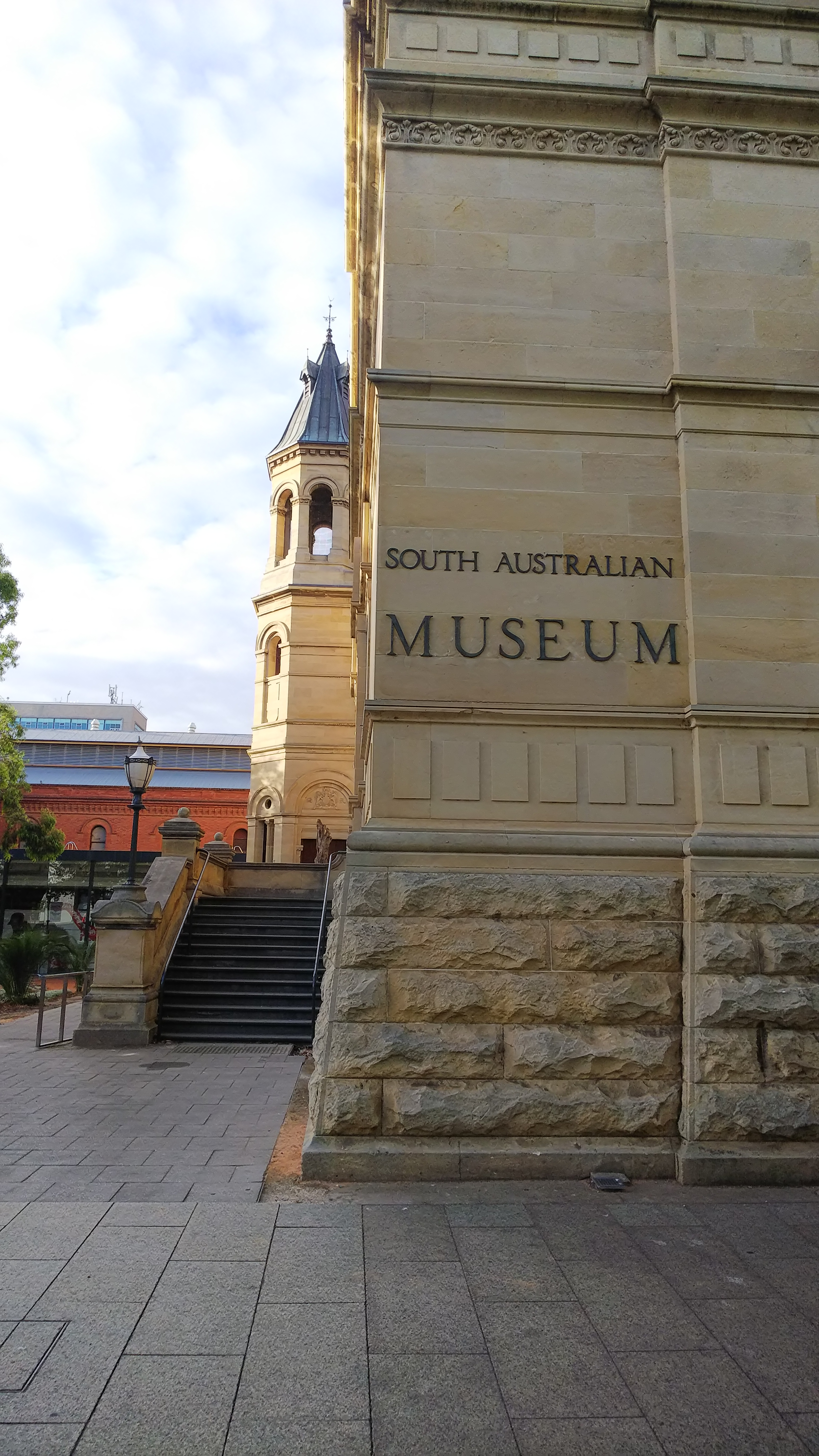 A building of South Australian Museum